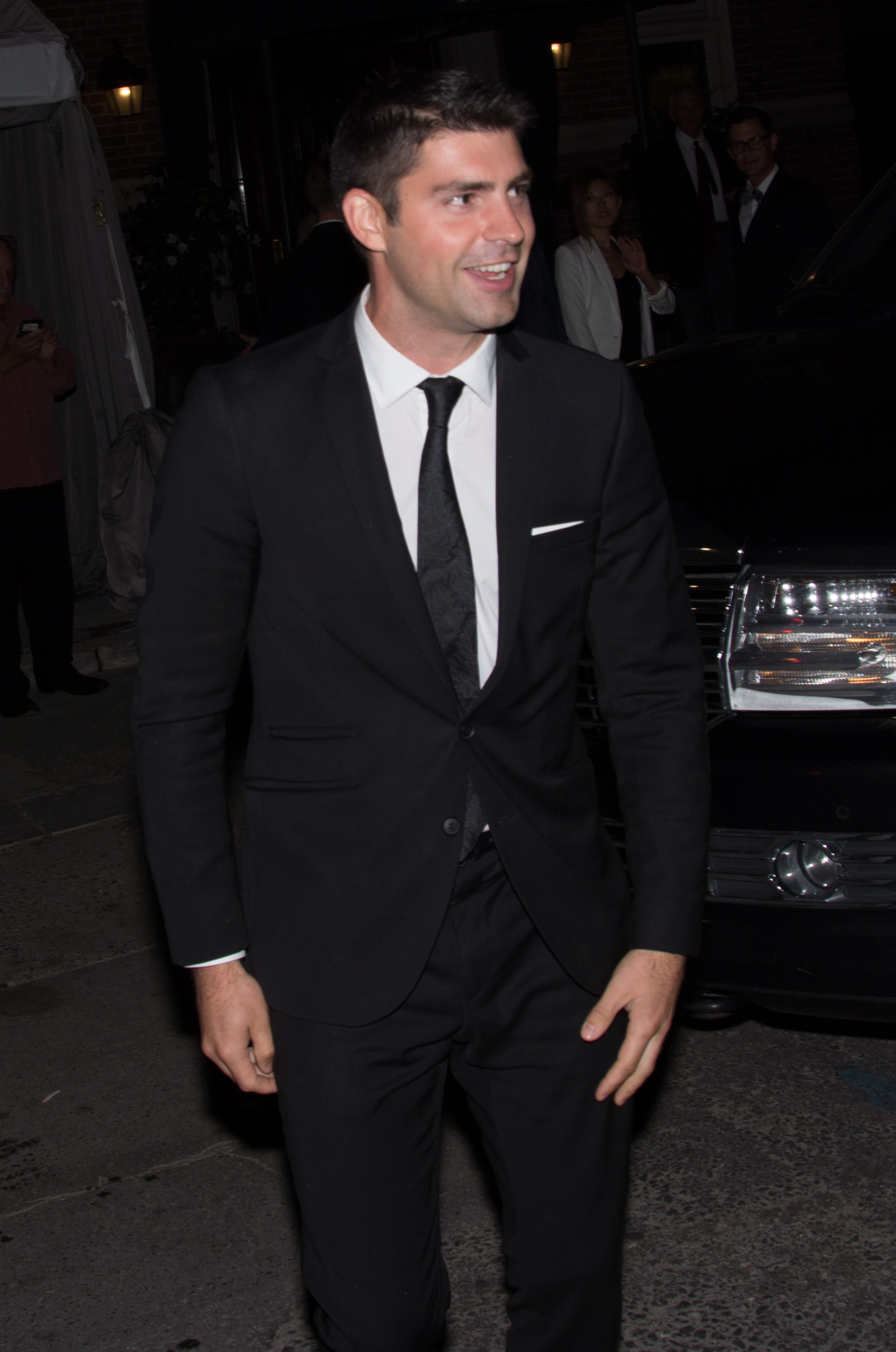 Actor Travis Milne arriving for the Hollywood Foreign Press Association & InStyle's 2014 TIFF Celebration